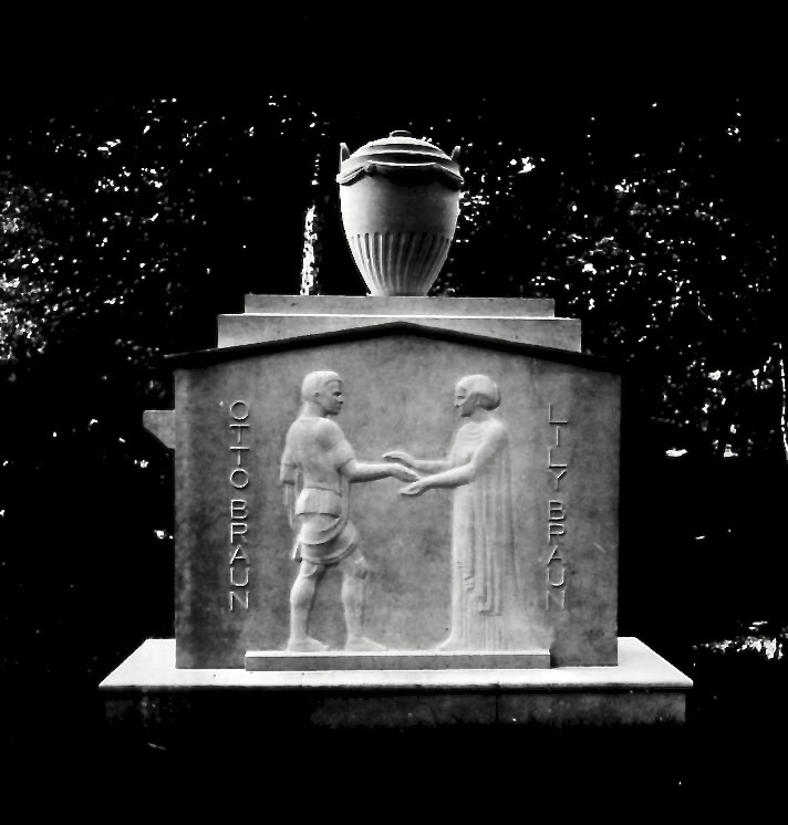 Grave monument of the German poet Otto Braun (1897–1918) and his mother, the journalist, publicist and women's rights activist Lily Braun (1865–1916) on the former property of the Braun family at 29 Erlenweg in Zehlendorf near Berlin. The tomb was erected in 1926 and executed by the Berlin sculptor Hugo Lederer (1871–1940). Due to a parceling of the formerly large Braun property in the 1990s, the grave monument now is located on a neighboring plot of the Braun Villa at Klausenerstraße 22 in Kleinmachnow south of Berlin.